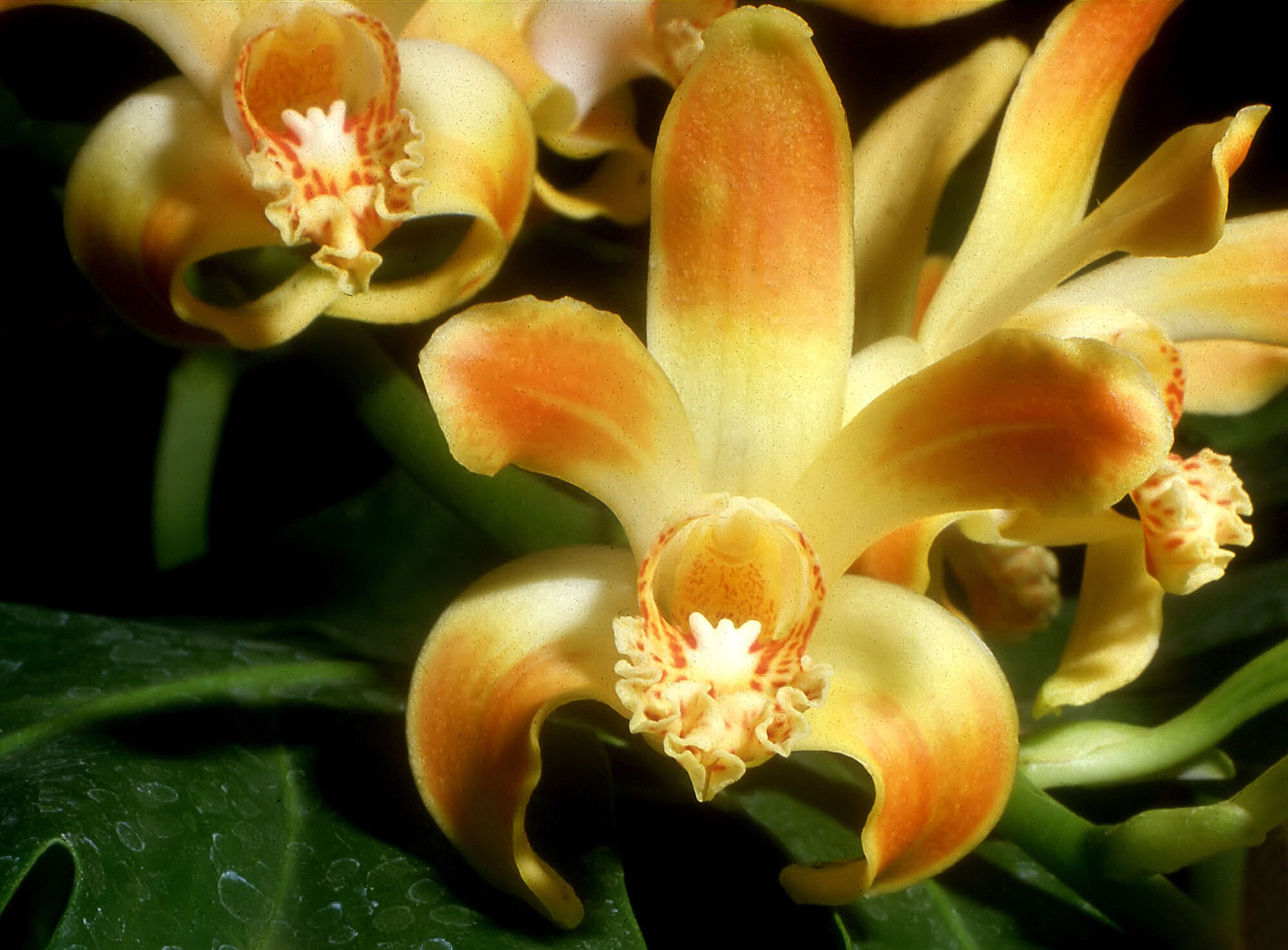 Chysis tricostata